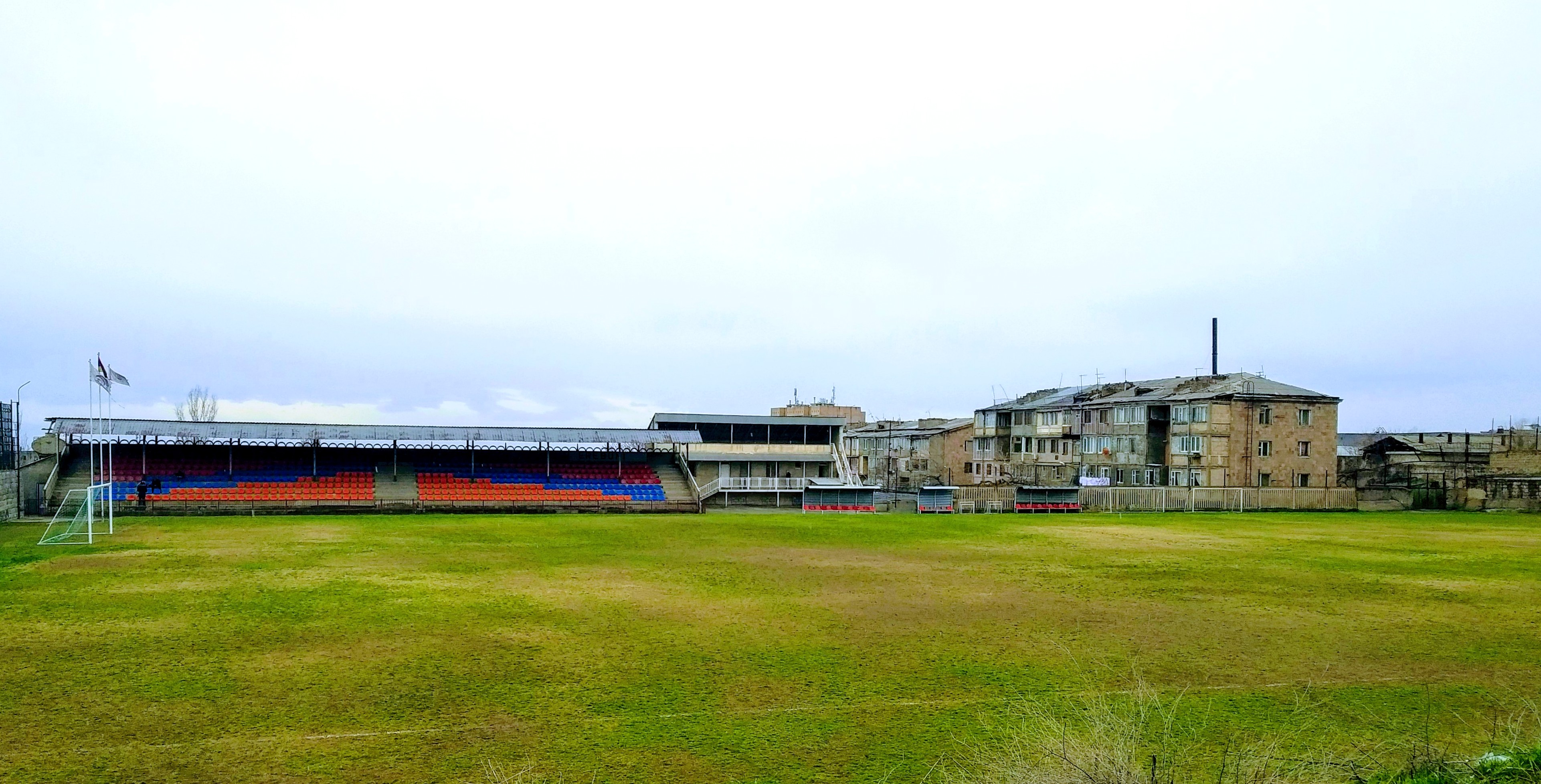 Hmayak Khachatryan (Erebubi) Stadium Yerevan.